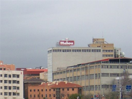 Mahou factory, Madrid (Spain).